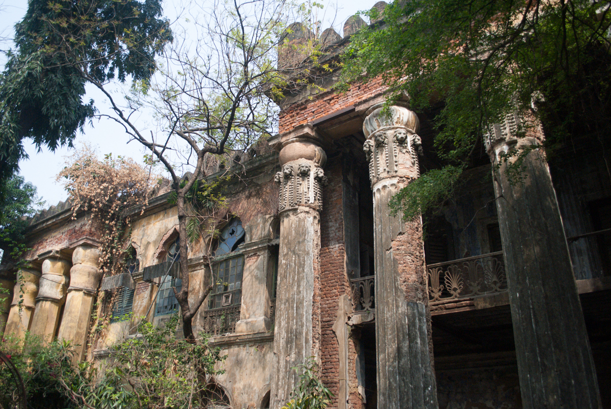 BASU BATI, BAGBAZAR